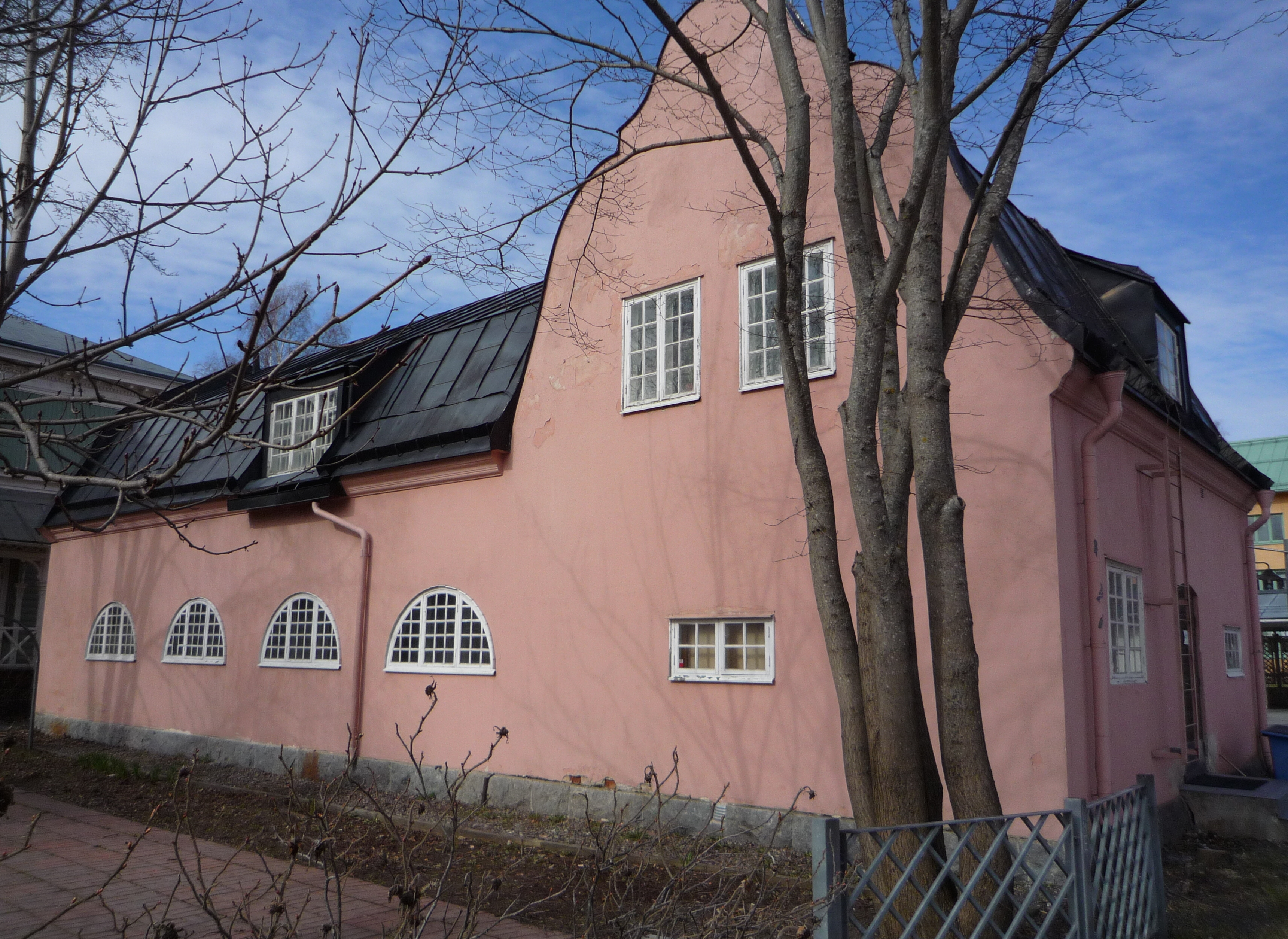 "Gardener's house", photographed from Storgatan.